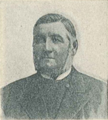 Swedish politician Per Gustaf Petersson i Brystorp. From page 10 of an album featuring portraits of all the members of the second chamber of the Swedish parliament (Sveriges riksdag) elected in 1897.